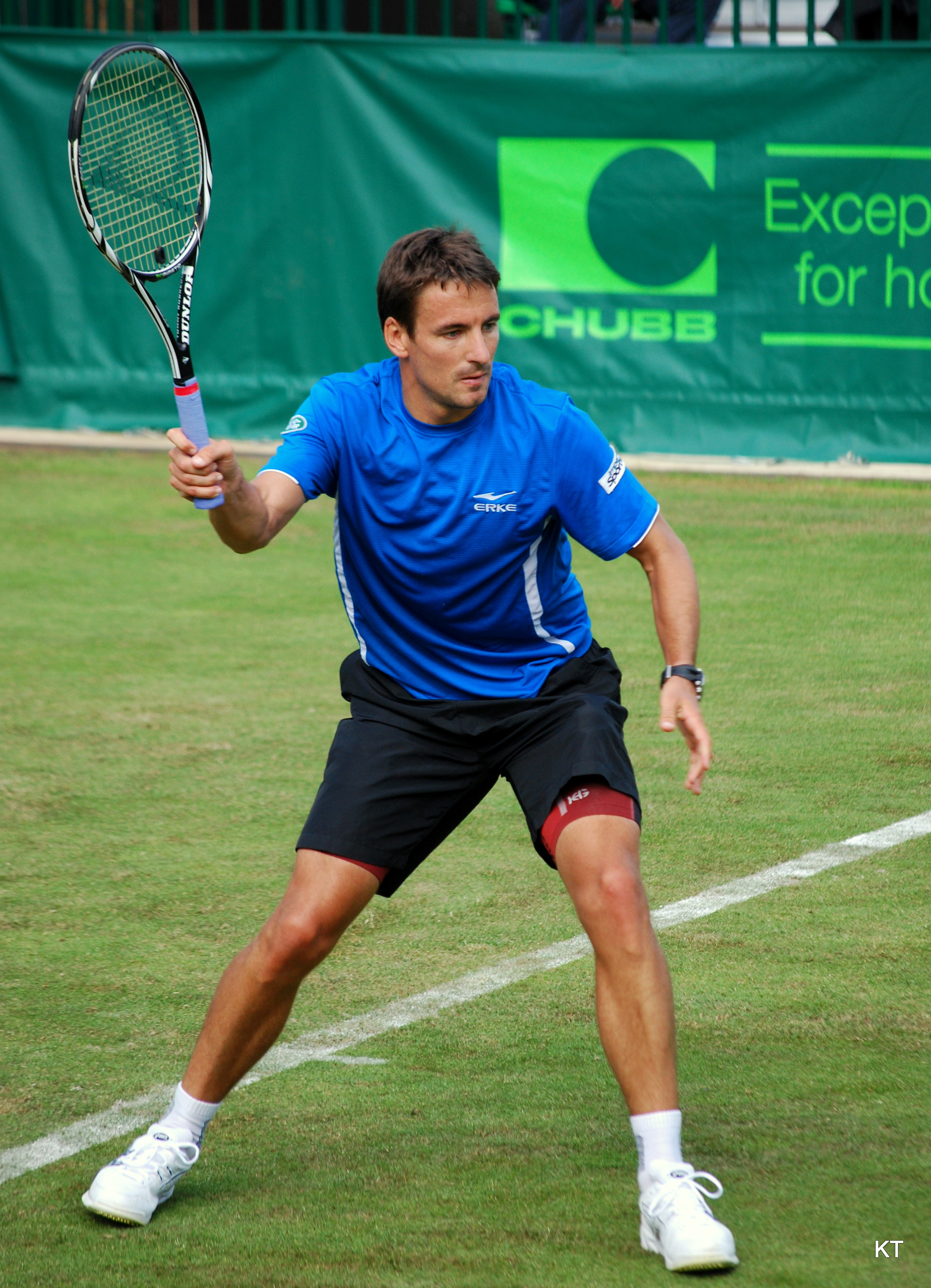 Tommy Robredo at Stokes Park